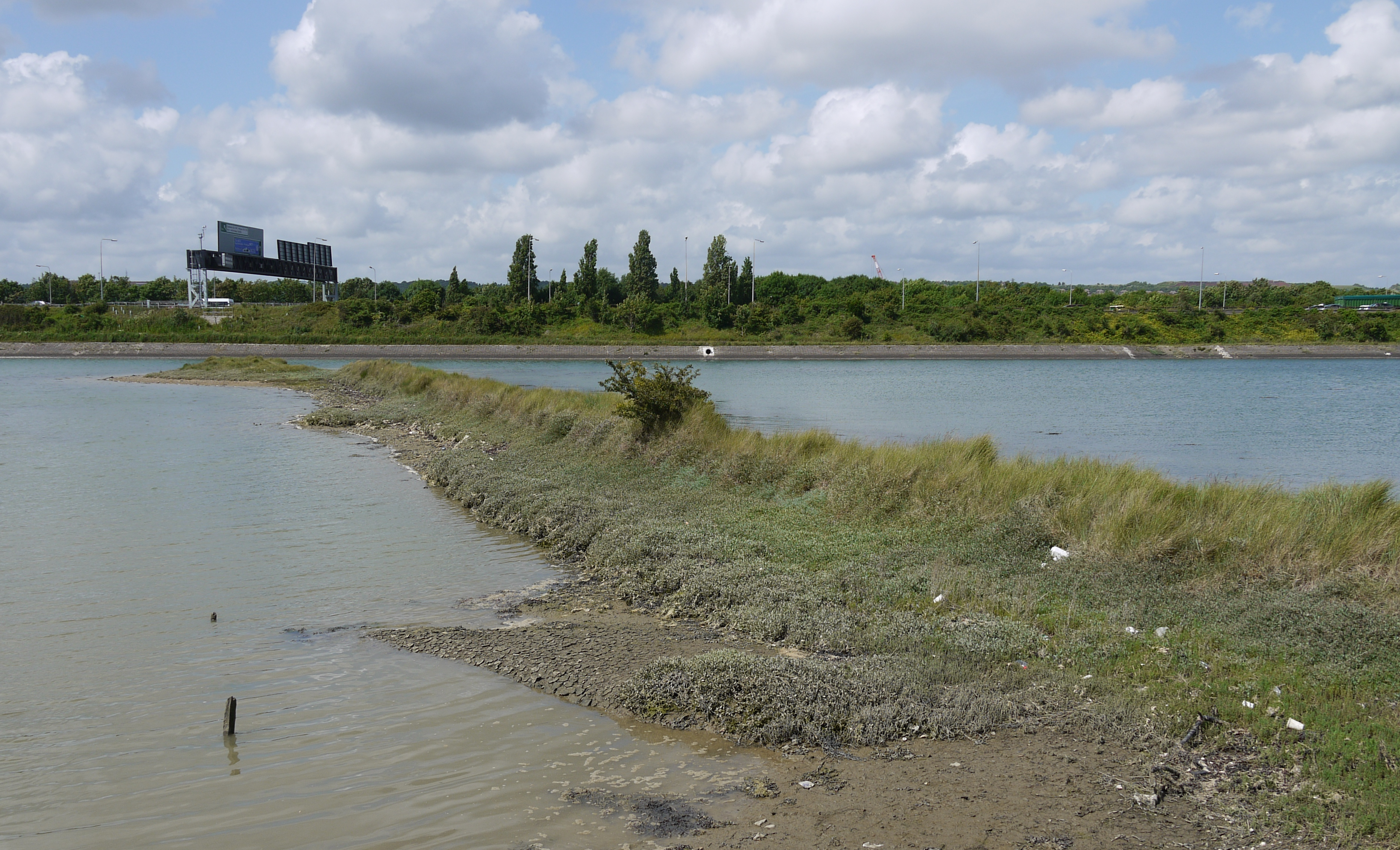 Photo of the remains of one of the dams constructed across portsbridge creek